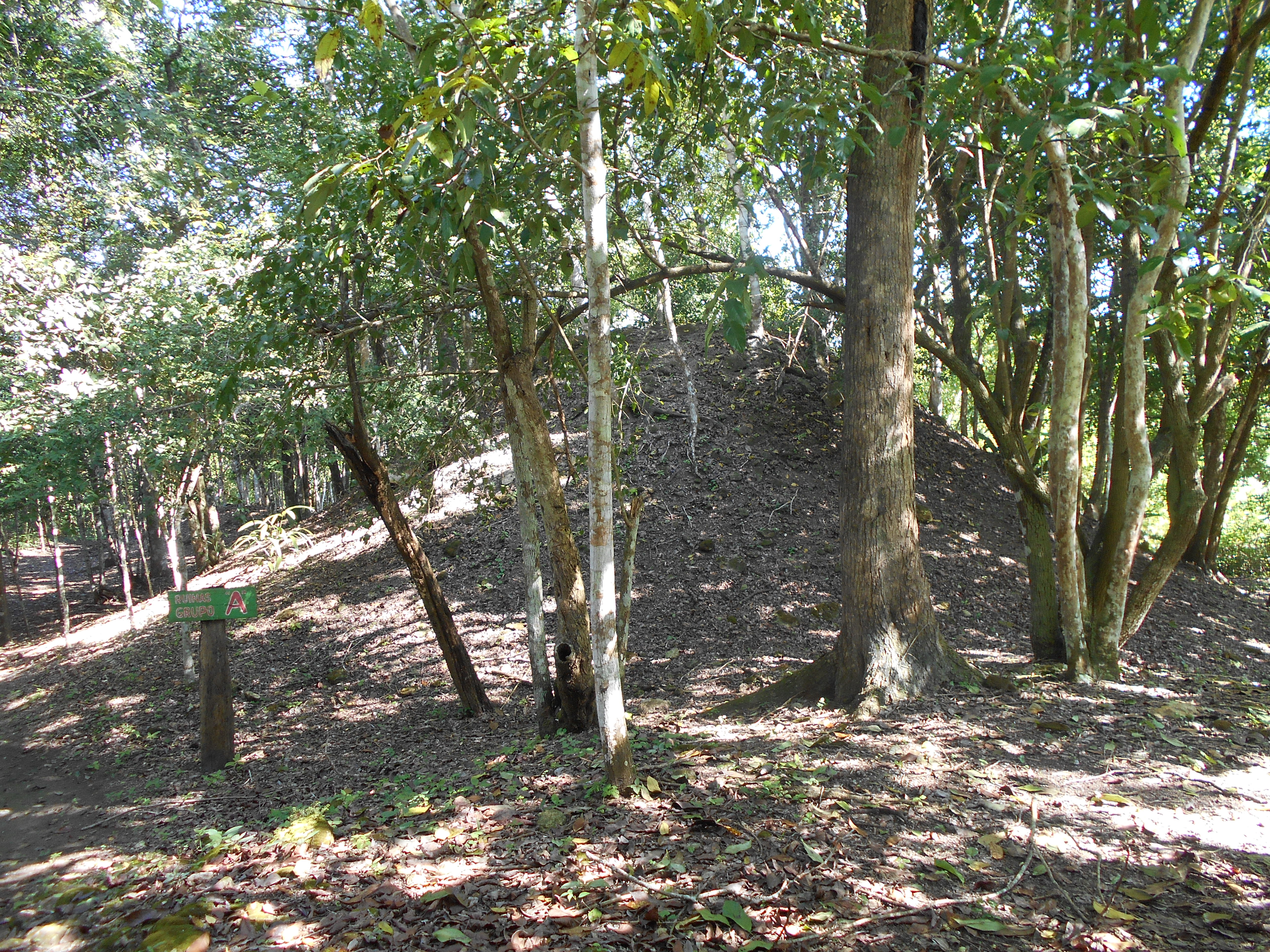 Late Classic Maya ruins of Motul de San José, Petén, Guatemala. Pyramid in Group A.